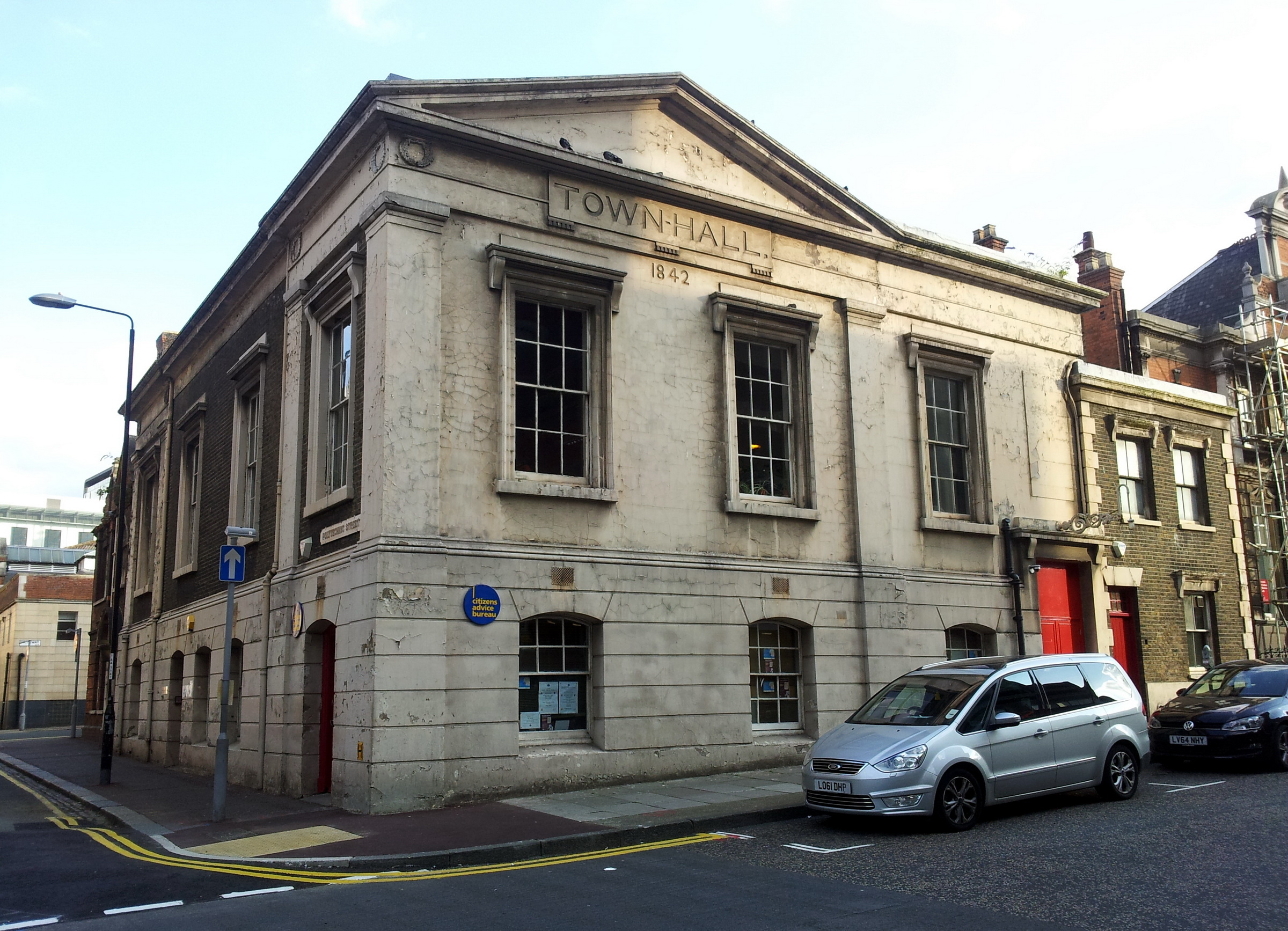 View of the old Woolwich Town Hall on Calderwood Street and Polytechnic Street, Woolwich, South East London. Wikidata has entry Q26350636 with data related to this item.